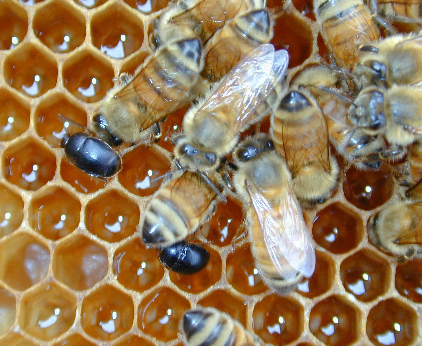 The small hive beetle,Aethina tumida, is native to South Africa, where it is regarded as a minor pest of African strains of honey bees. However, in the United States, where the beetle was first discovered in 1988, it has become a significant pest of non-Africanised strains of honey bees. Larvae of the small hive beetle are most damaging to honey bees. They tunnel through combs, eating honey and pollen and killing bee brood, ruining the combs. Australia is now only the second New World country to which the beetle has spread. The effect of the beetle in Australia is likely to be similar to that in the US, as the climate and bee strains in Australia are similar.